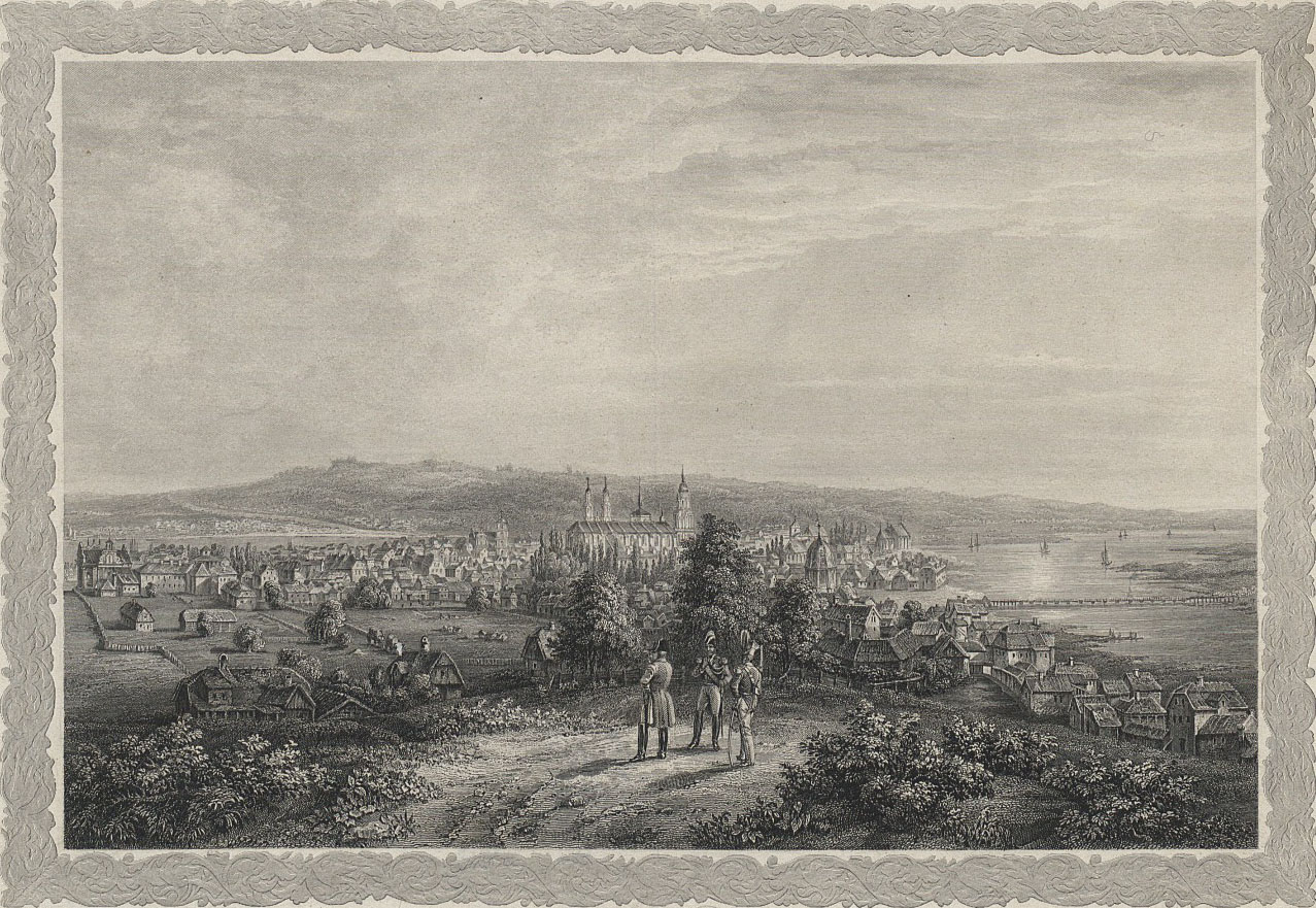 Kaunas (Lithuania) in 19th century.